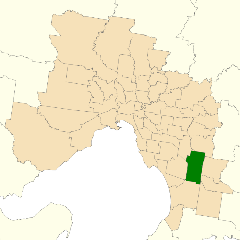 Location of the Victorian electoral district of Dandenong (dark green) in the Greater Melbourne area.